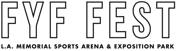 Fyf Kigi